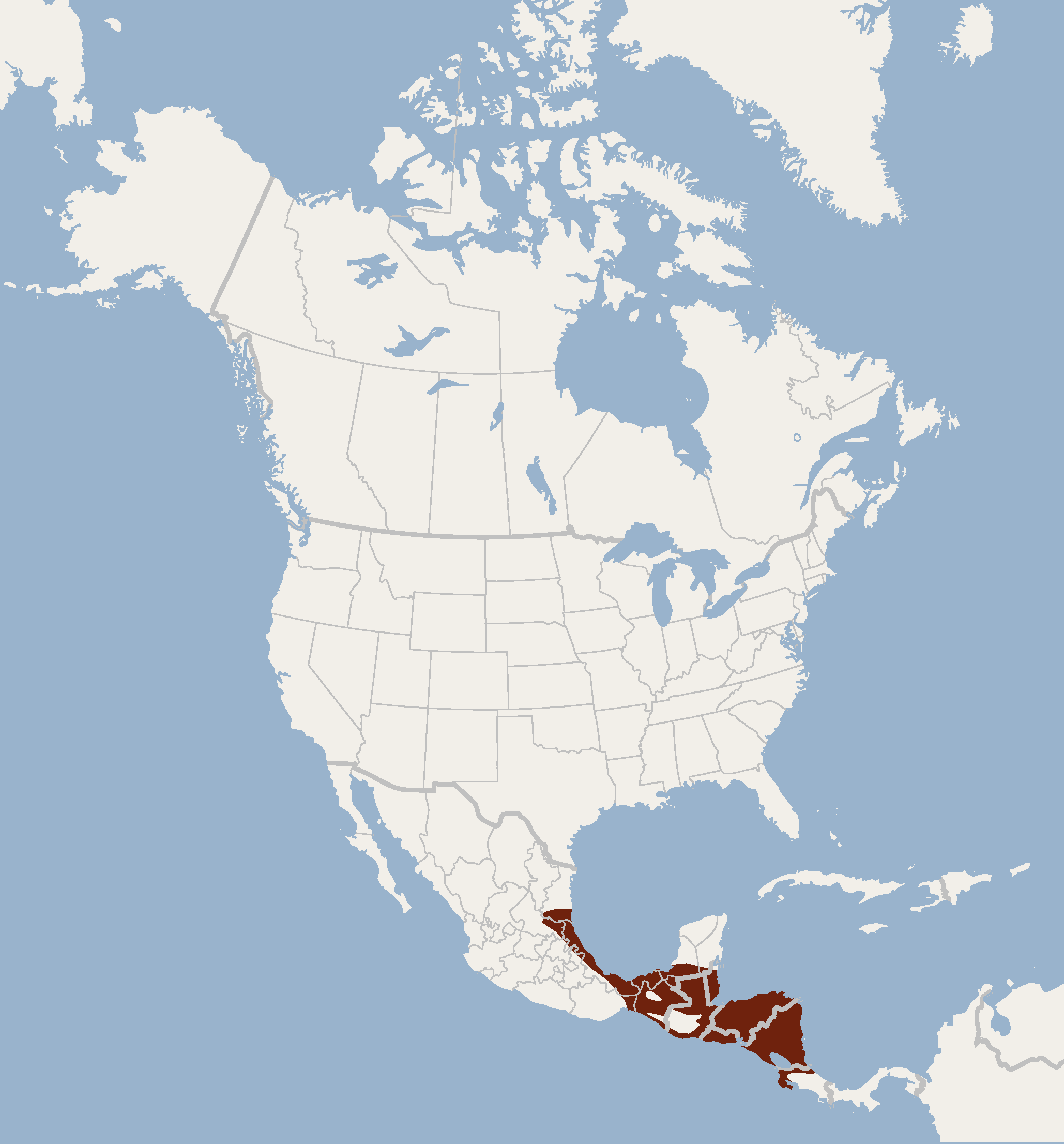 According to Reid, 2008 and Kays & Wilson, 2009